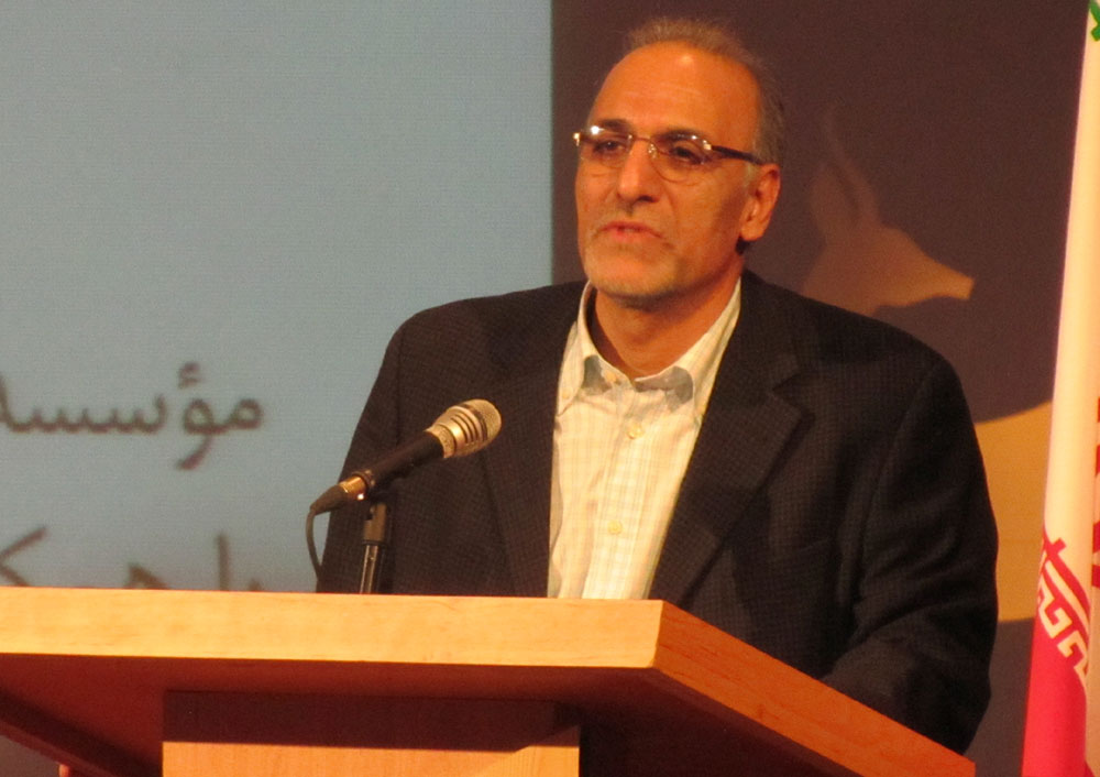 Fereydoun Amoozadeh Khalili at First Koomesh Award, Semnan, November 2013